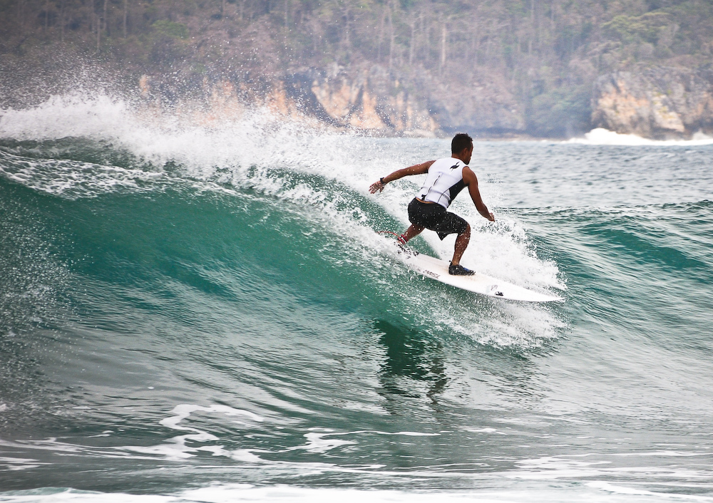 Surfing hours